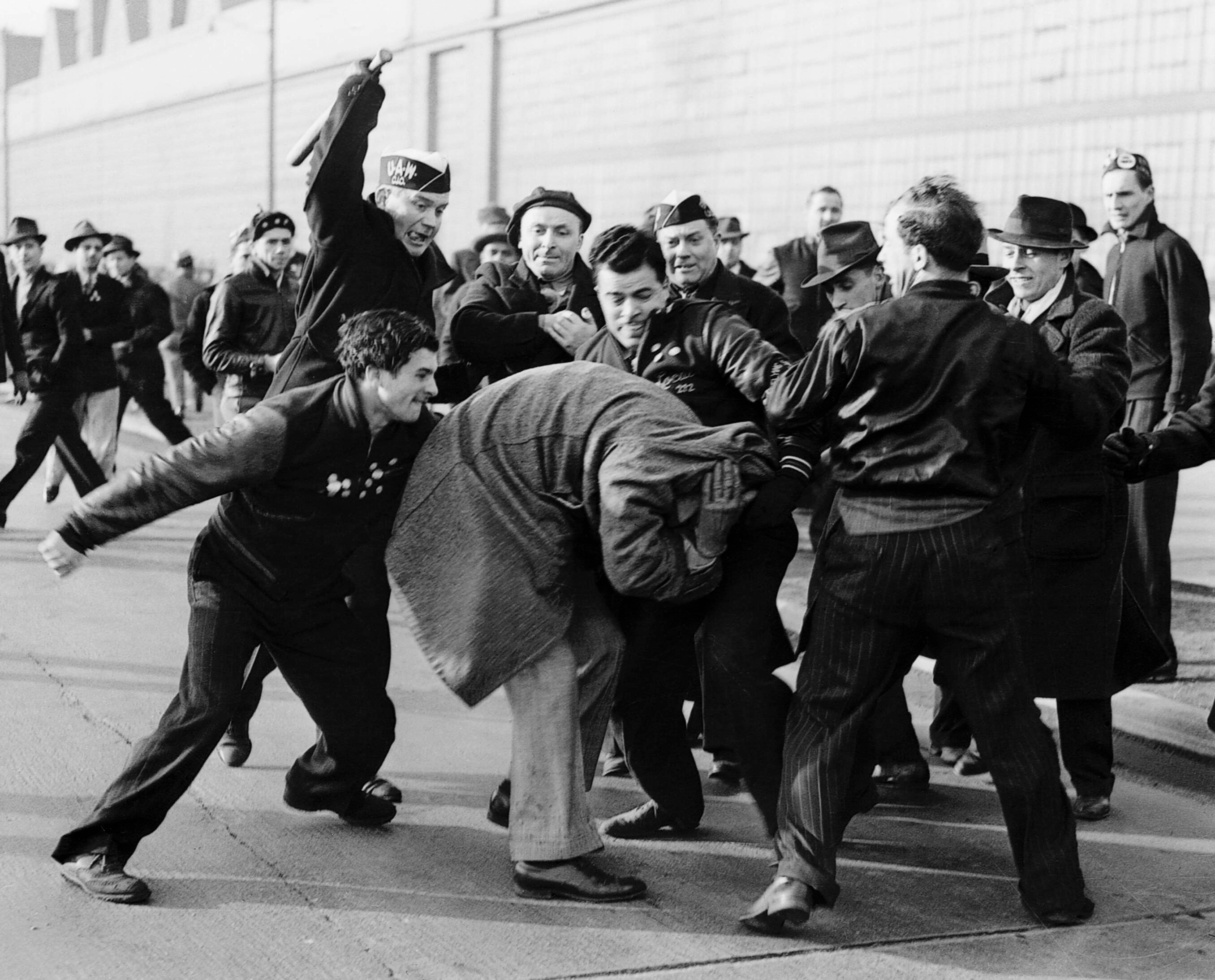 Members of the United Auto Workers beat a "strike breaker" during a picket-line protest at the Ford River Rouge plant in Dearborn, Michigan. Winner of the 1942 Pulitzer Prize for Photography.